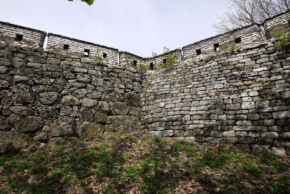 The wall of Namhansanseong